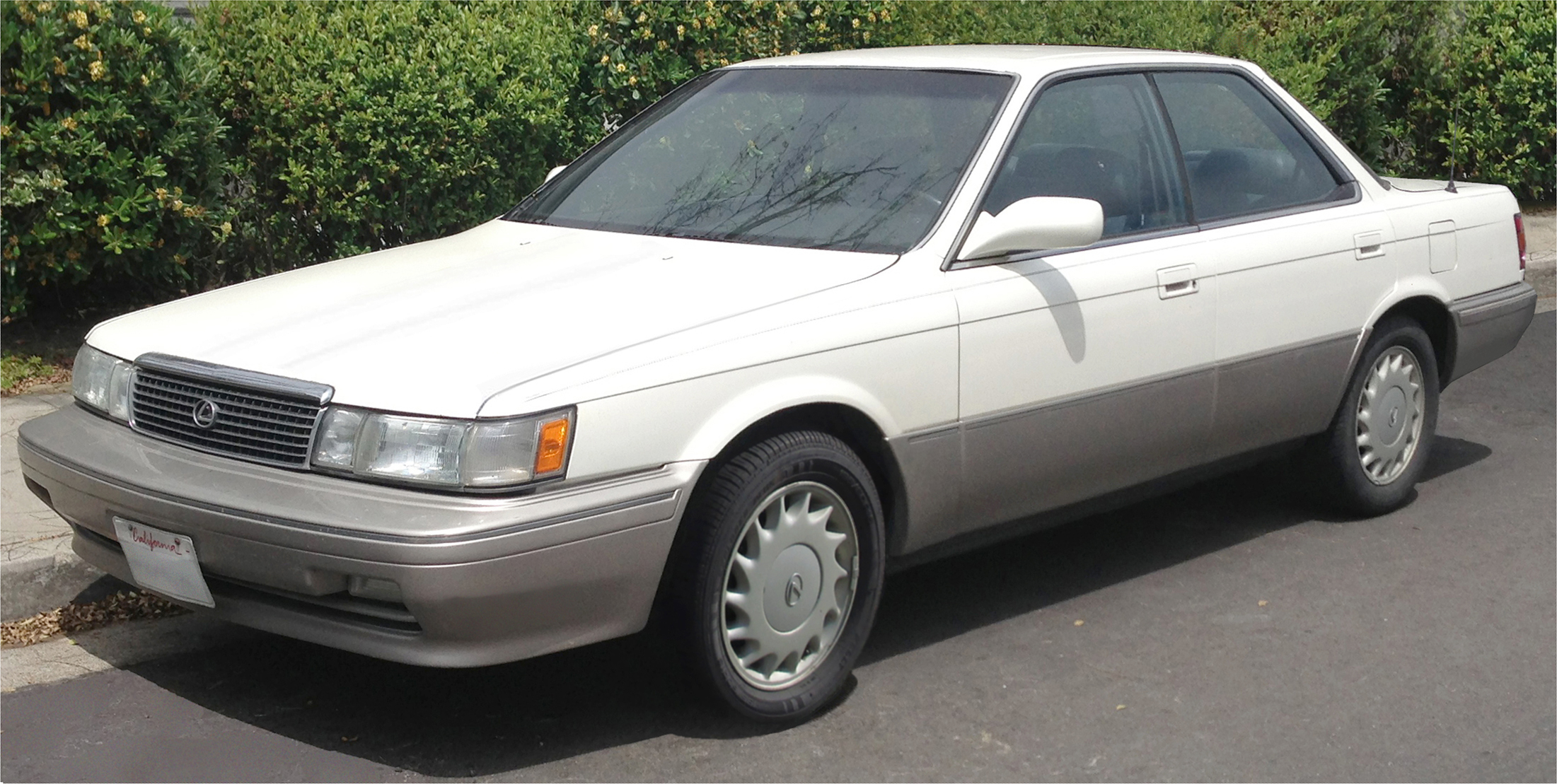 ES 250